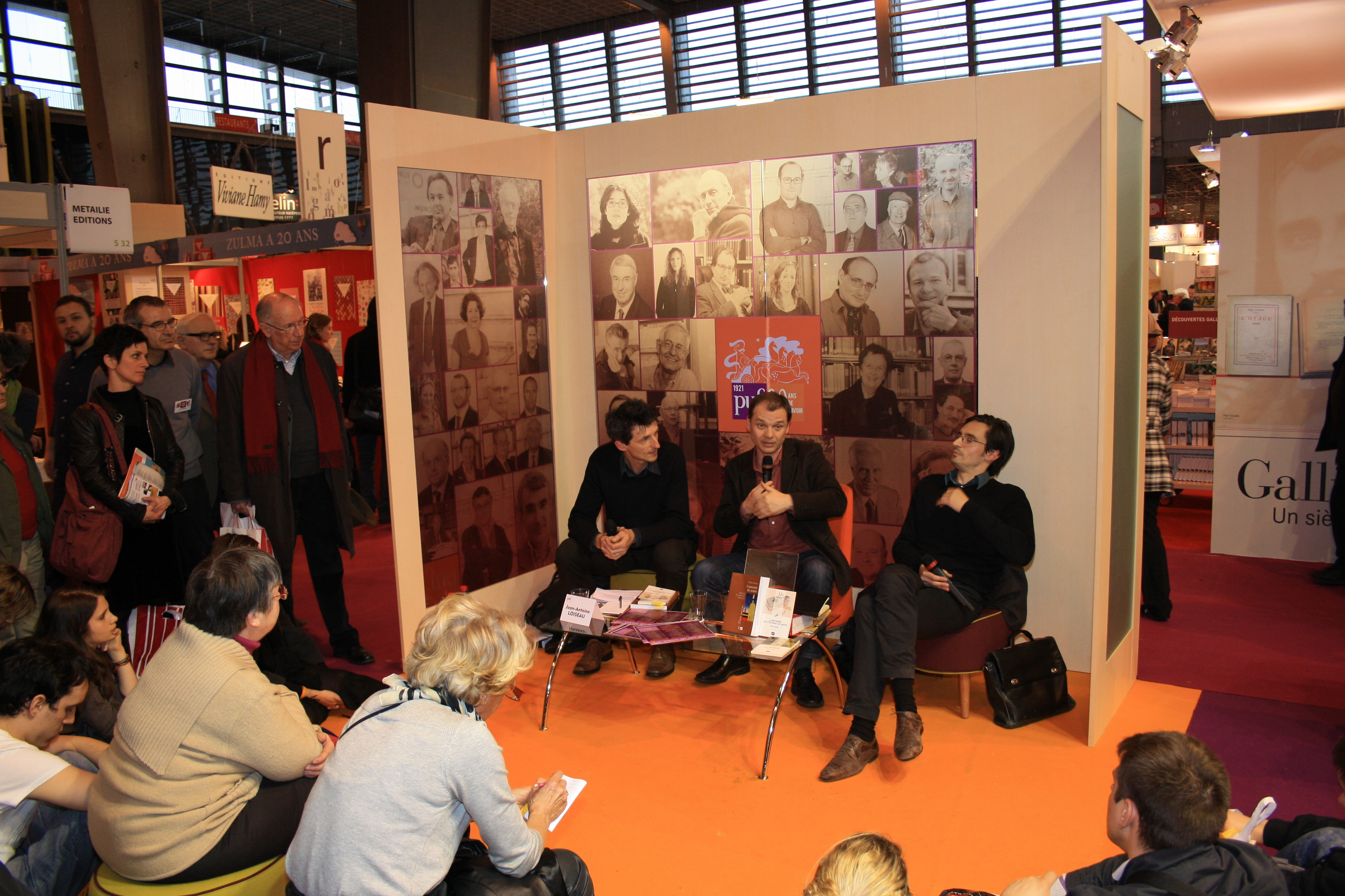 Presses universitaires de France booth at the Salon du Livre in Paris, France